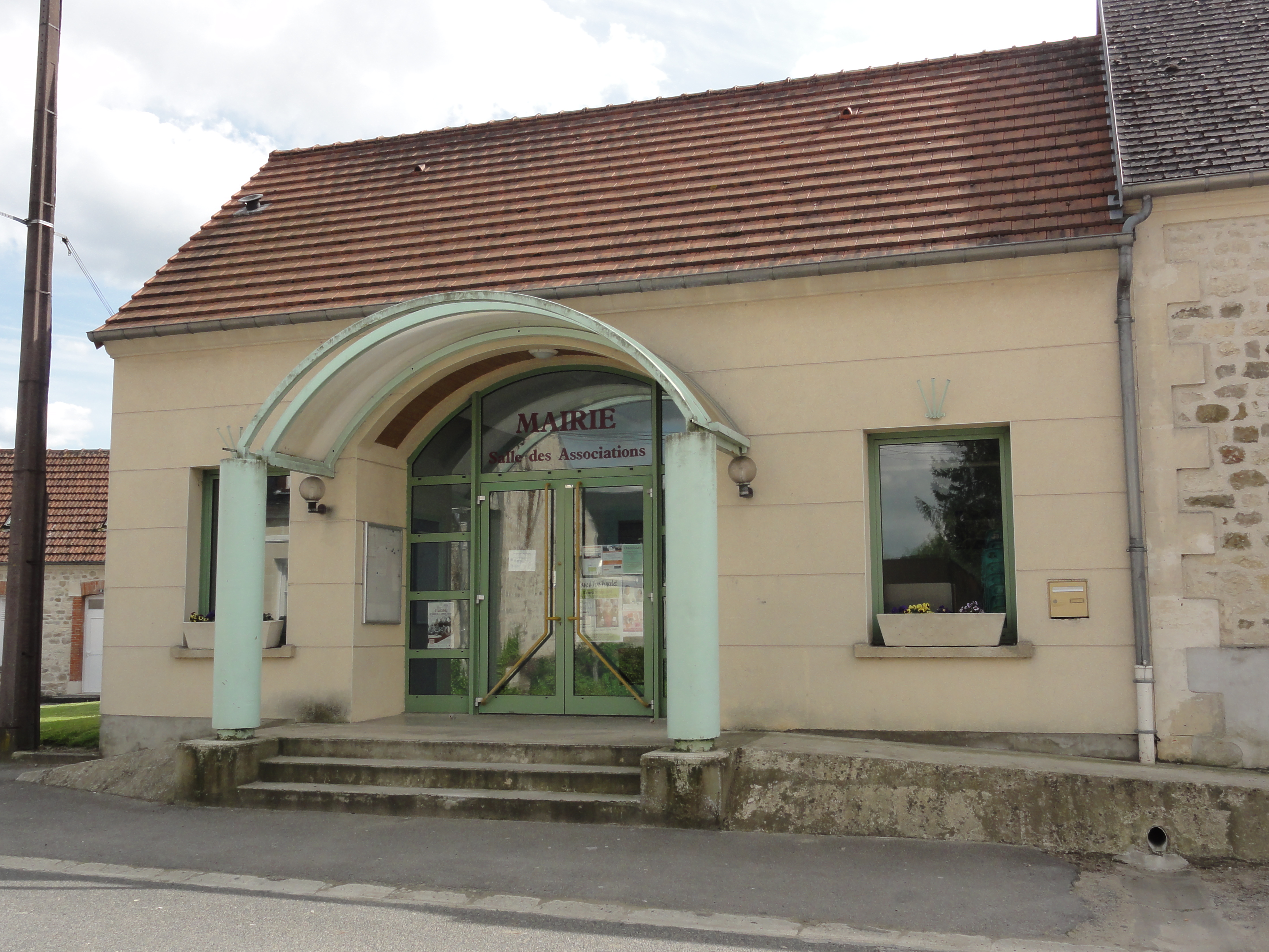 Chivy-lès-Étouvelles (Aisne) nouvelle mairie